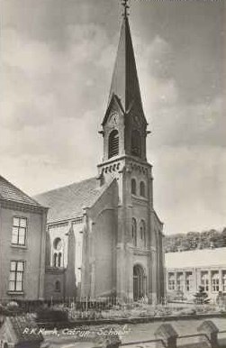 The Joannes de Doperkerk in Catrijp, the Netherlands. Build by Theo Asseler 1873, demolished 1971